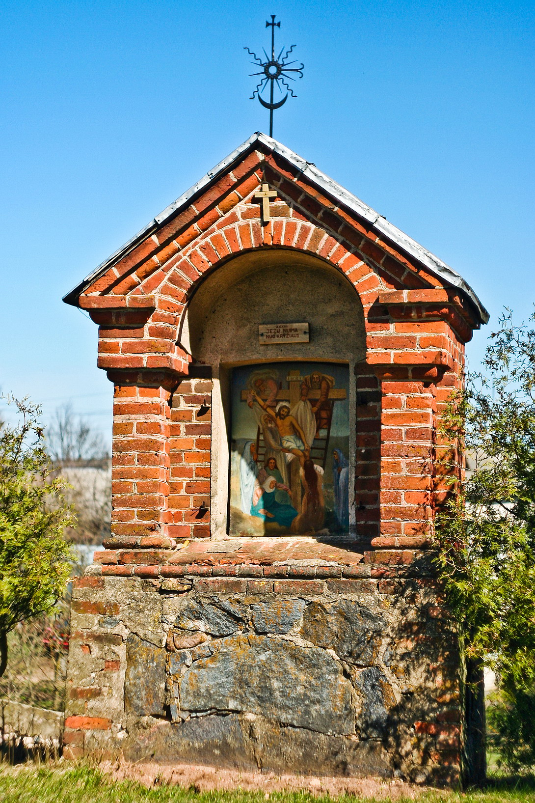 An old Calvary chapel in Vepriai, Lithuania